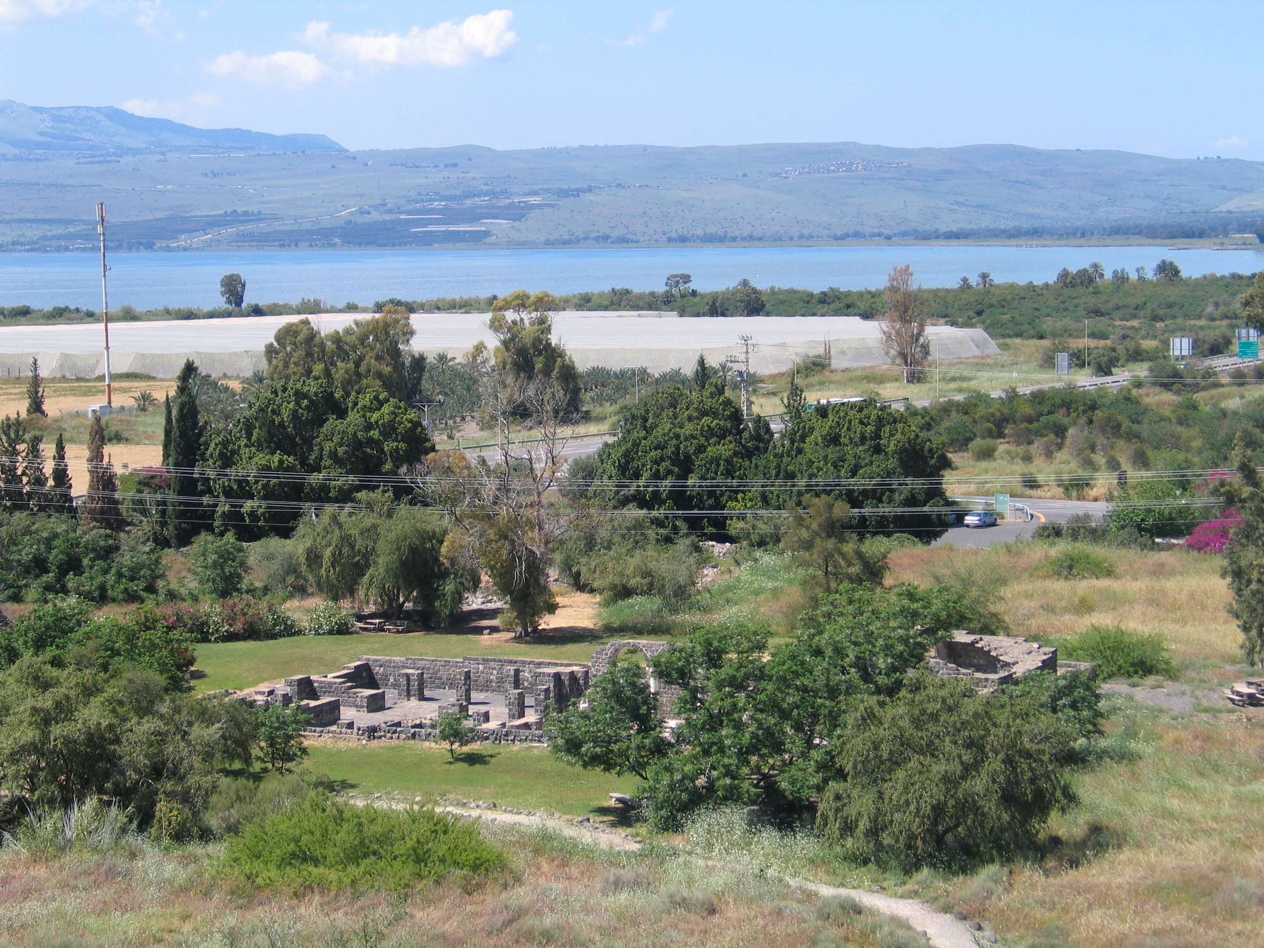 Byzantine monastery in Kursi.